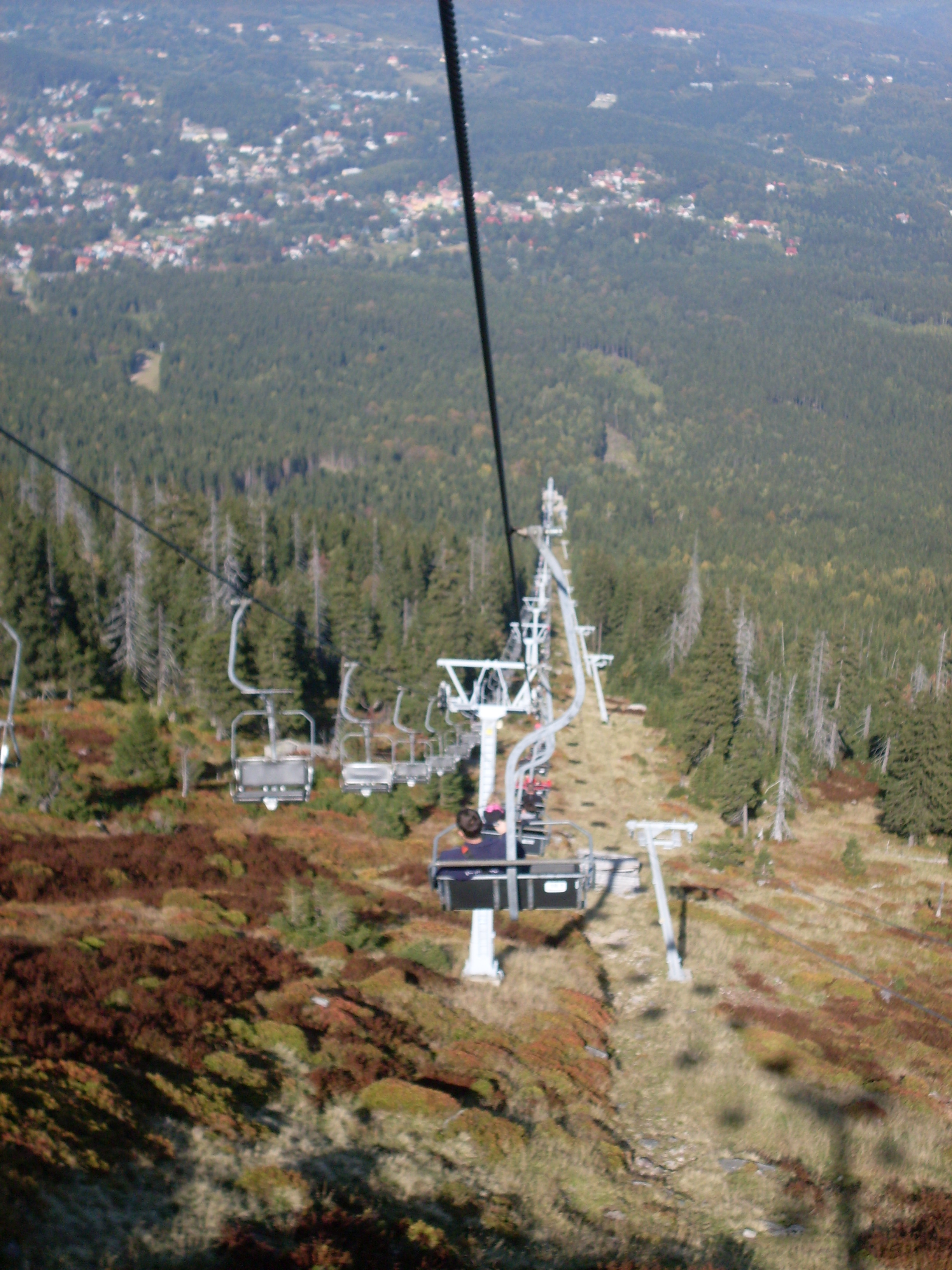 Szklarska Poręba - Szrenica II